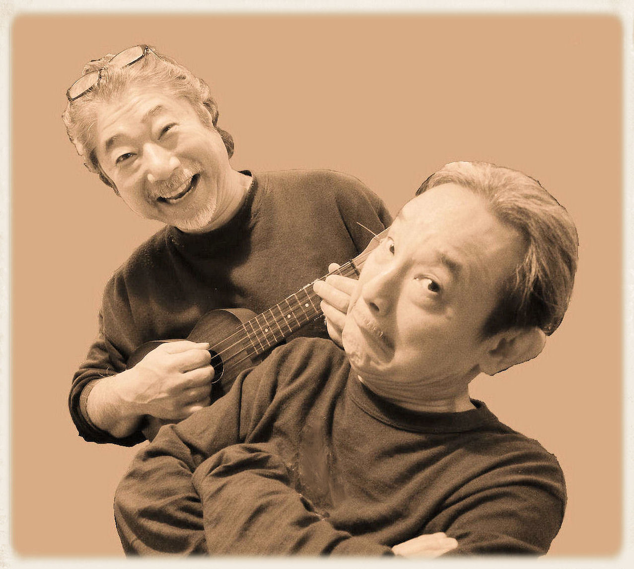 mamoru jilly